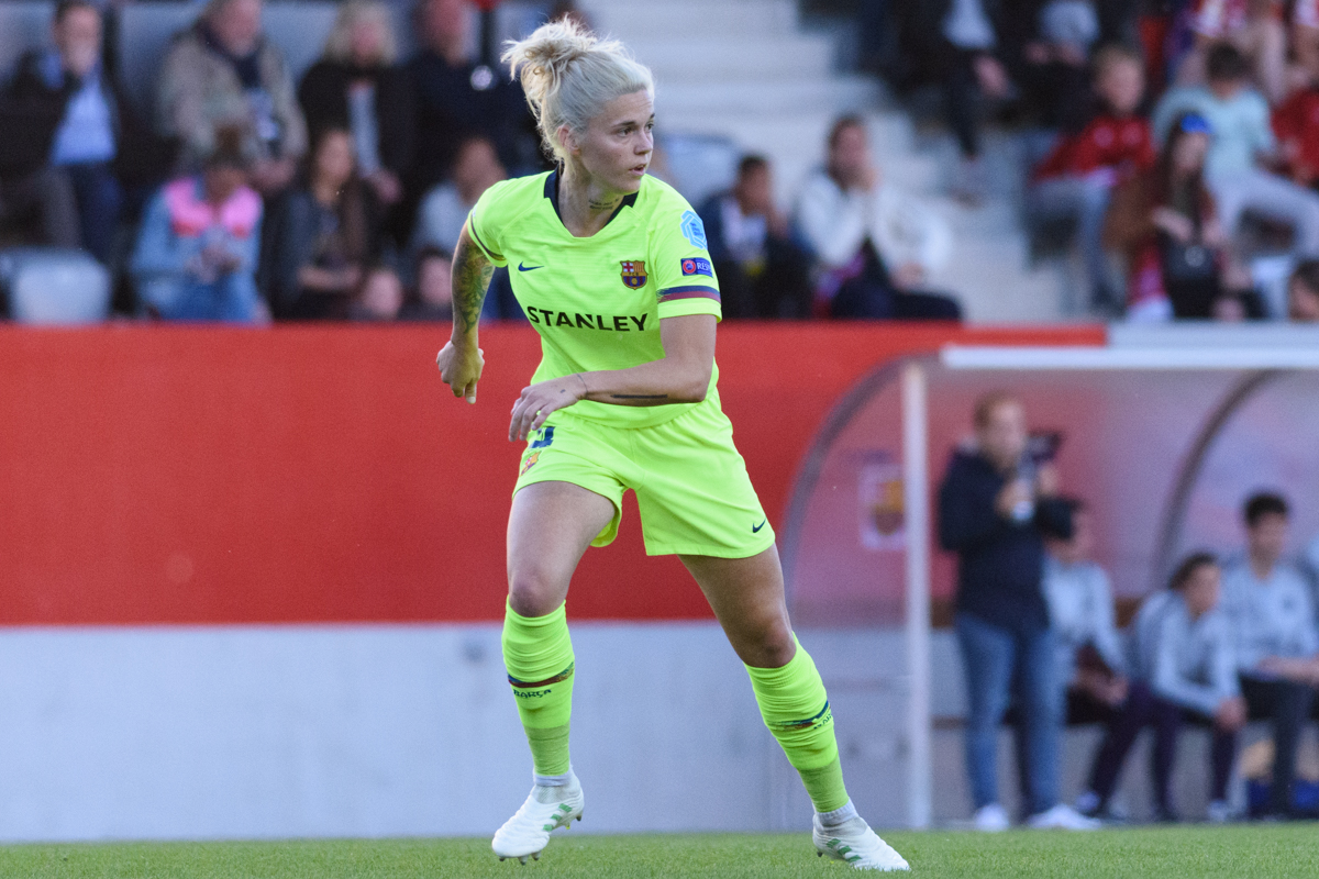 Mapi León during the Champions League match vs Fc Bayern München